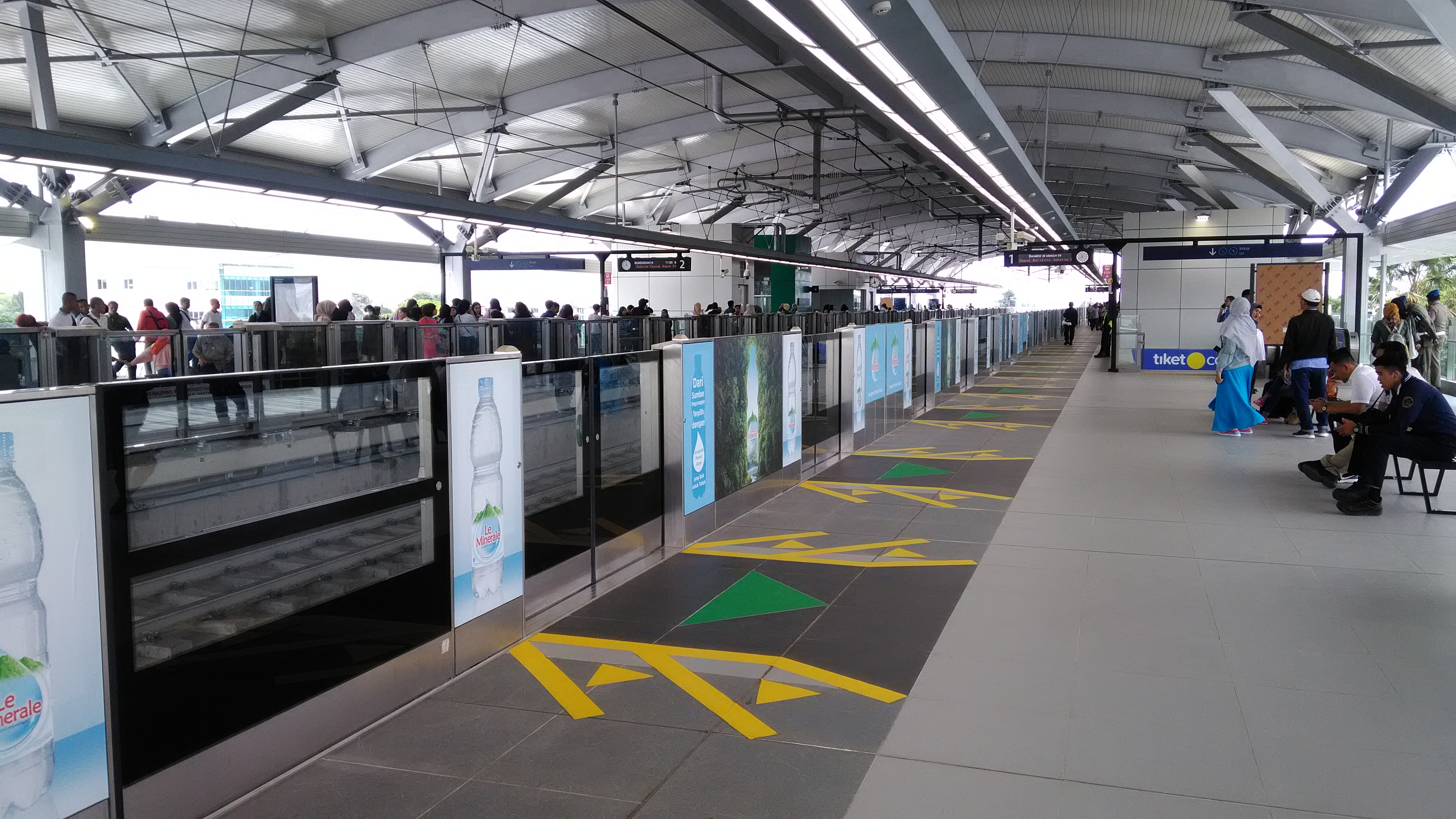 The Conditions of Lebak Bulus MRT Station